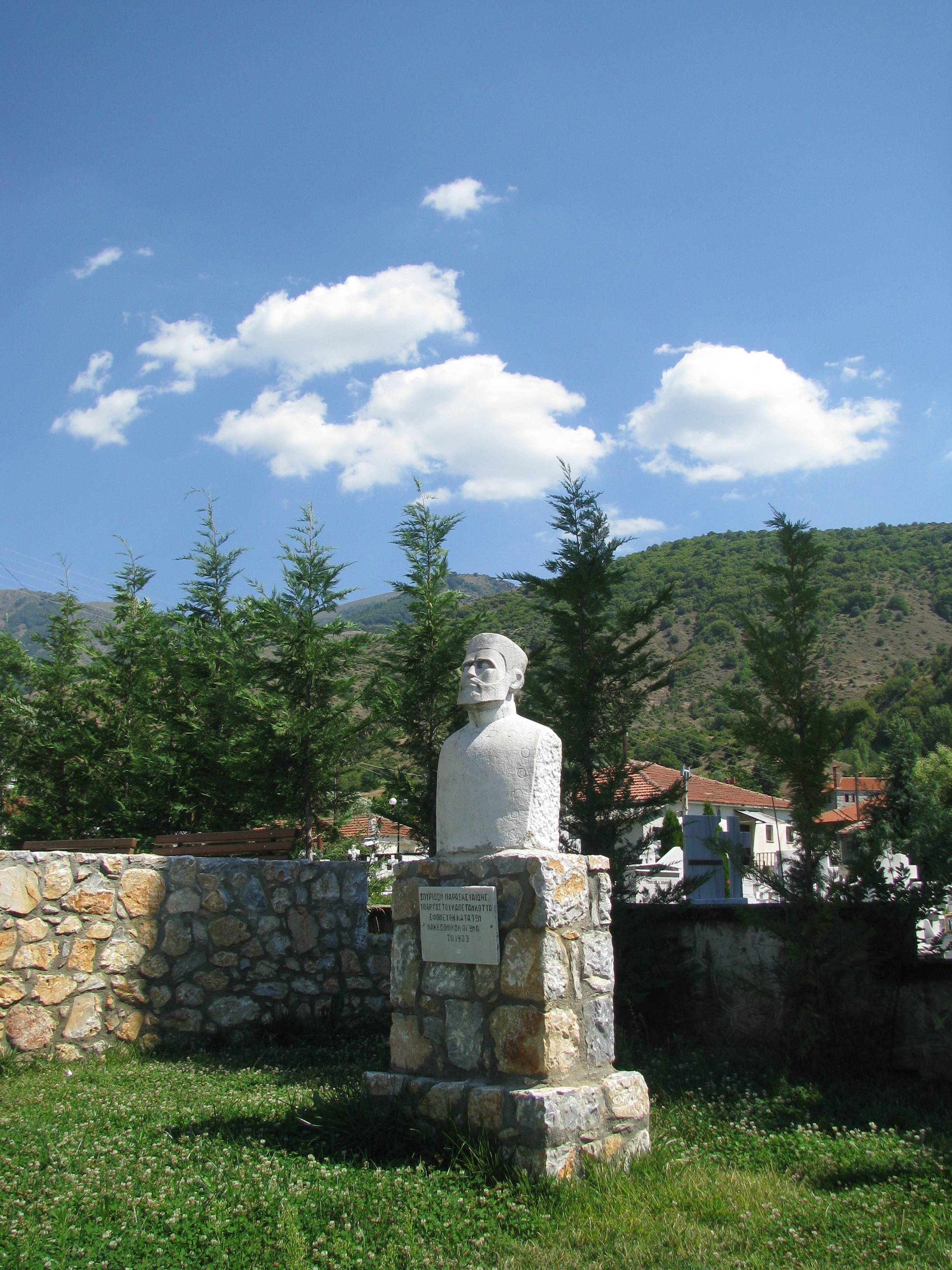 Bust of Spiro Prespancheto in Rumbi or Lemos, Prespa, Greece